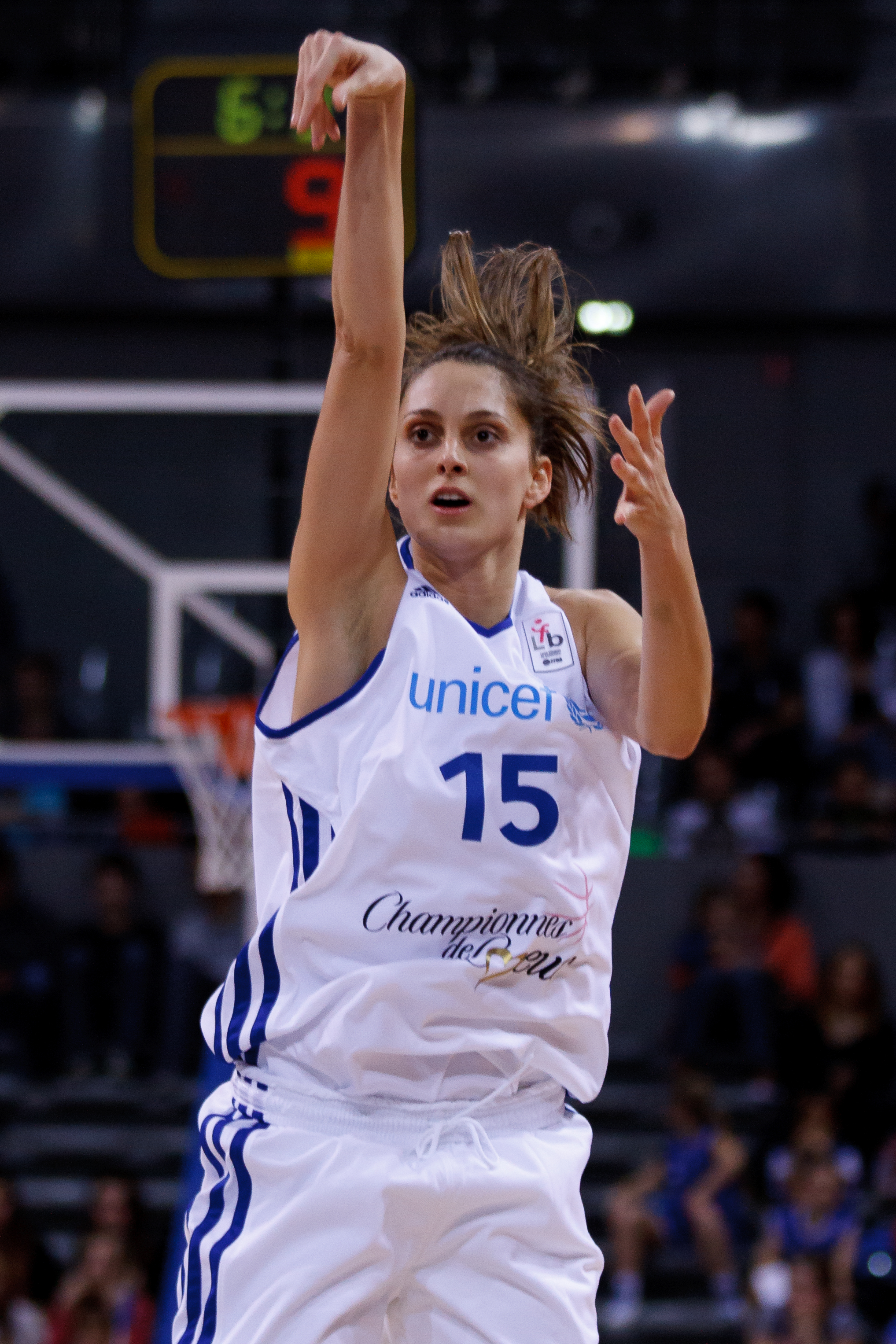 Ana Cata-Chitiga during exhibition game Championnes de cœur in Toulouse.